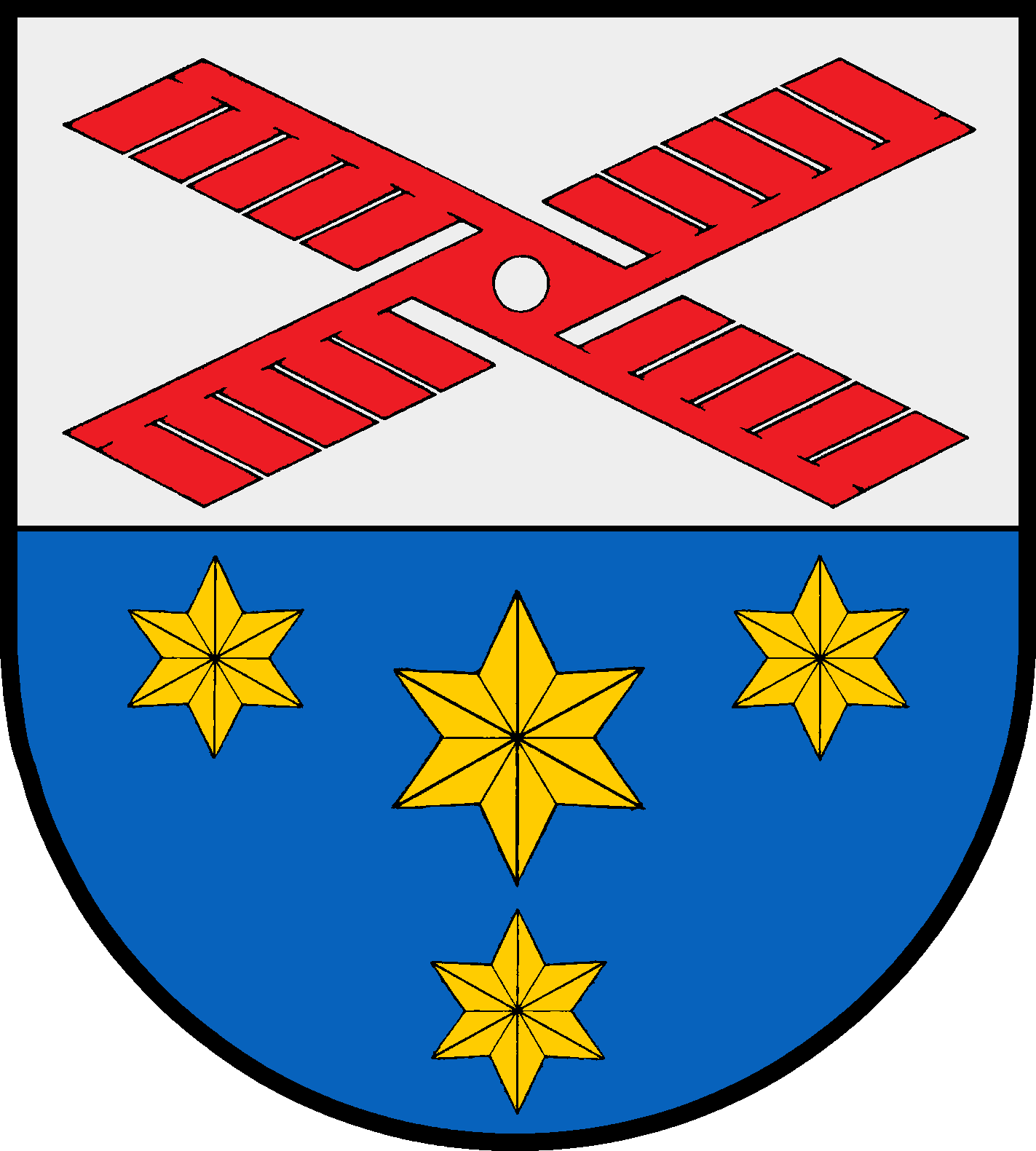 Coat of arms of the municipality Harmsdorf in Schleswig-Holstein, Germany.